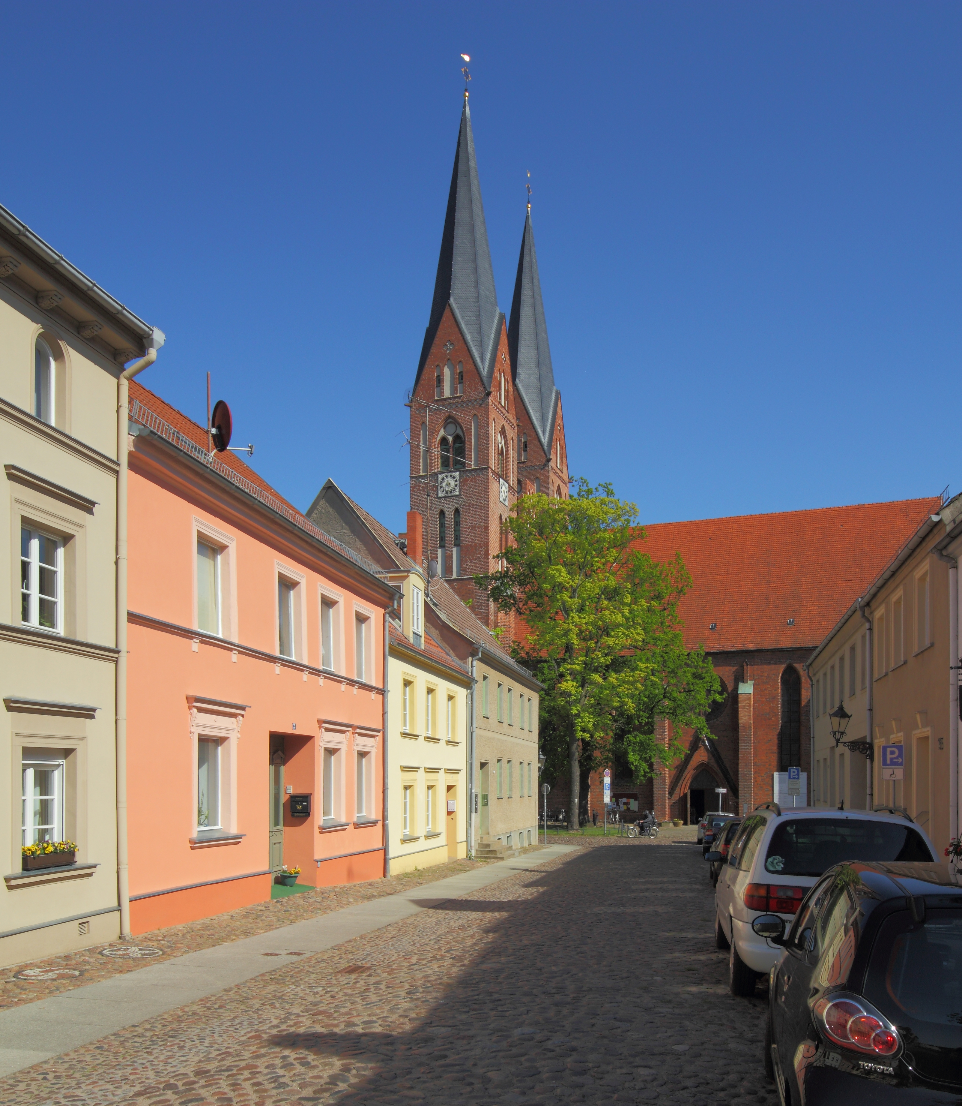 Holy Trinity Church in Neuruppin, Brandenburg, Germany